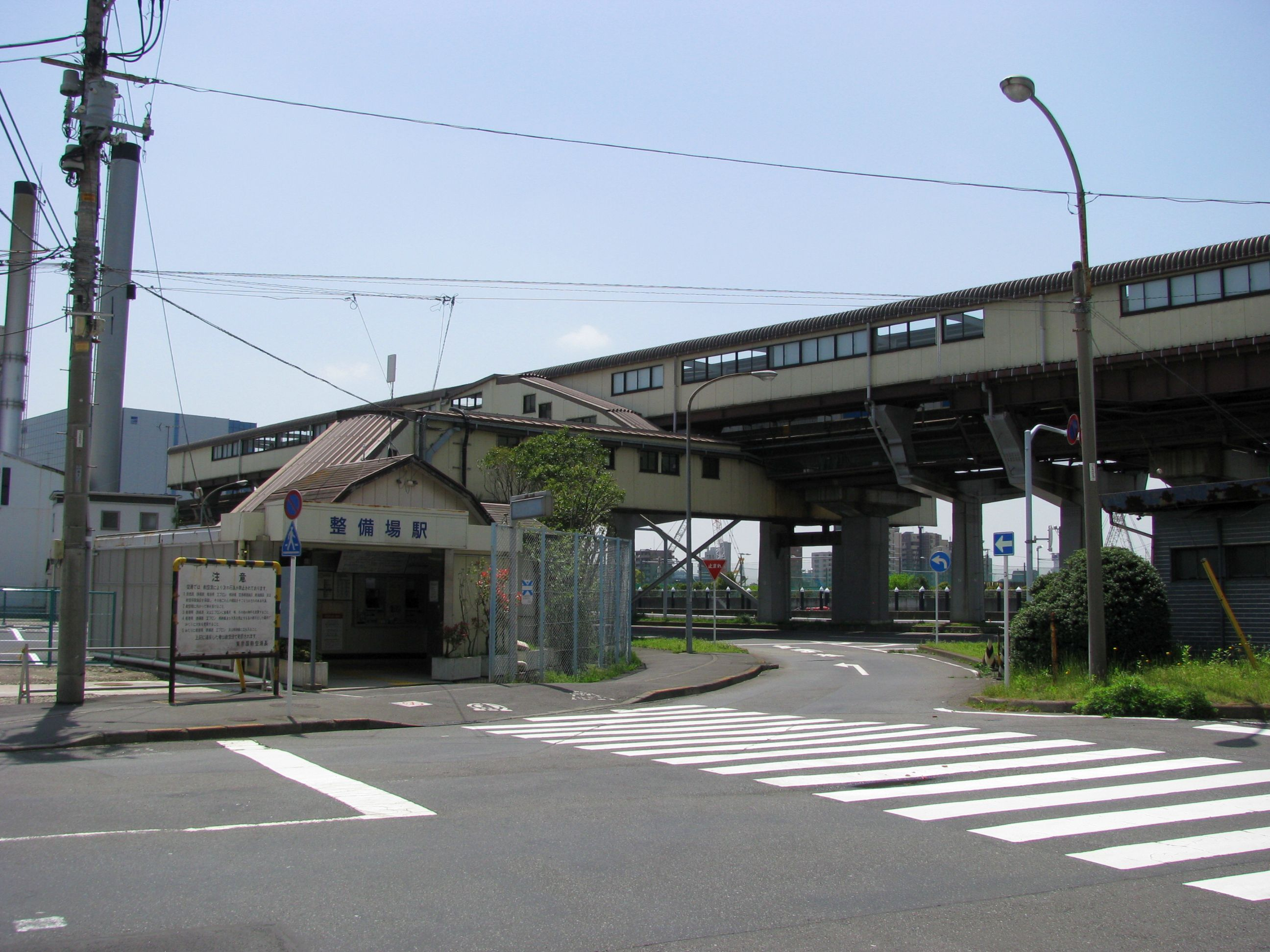 The Seibijō Station of the Tokyo Monorail. This place is in Ōta, Tokyo, Japan.